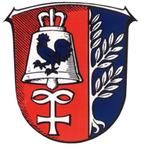 Coat of Arms of Helsa